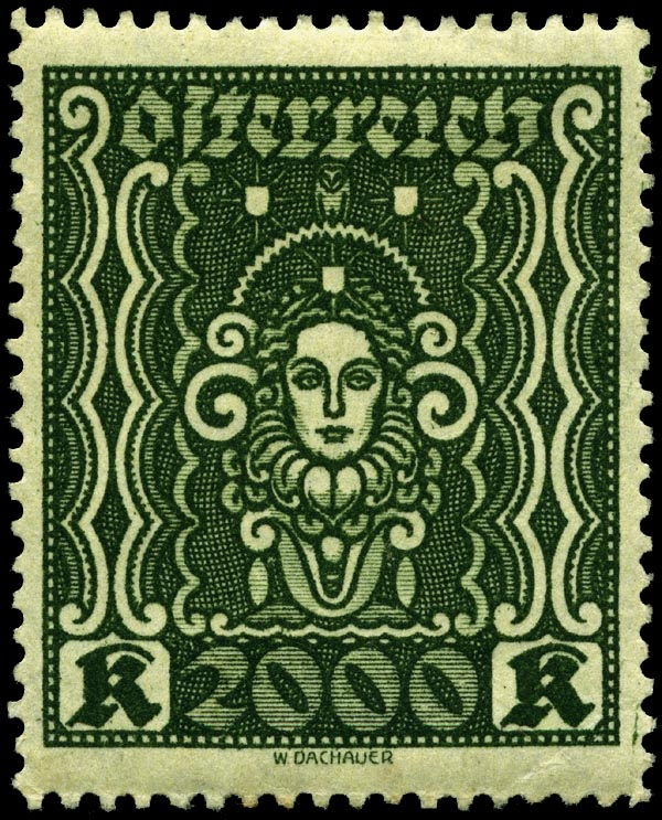 Austria 2000-krone stamp of 1922